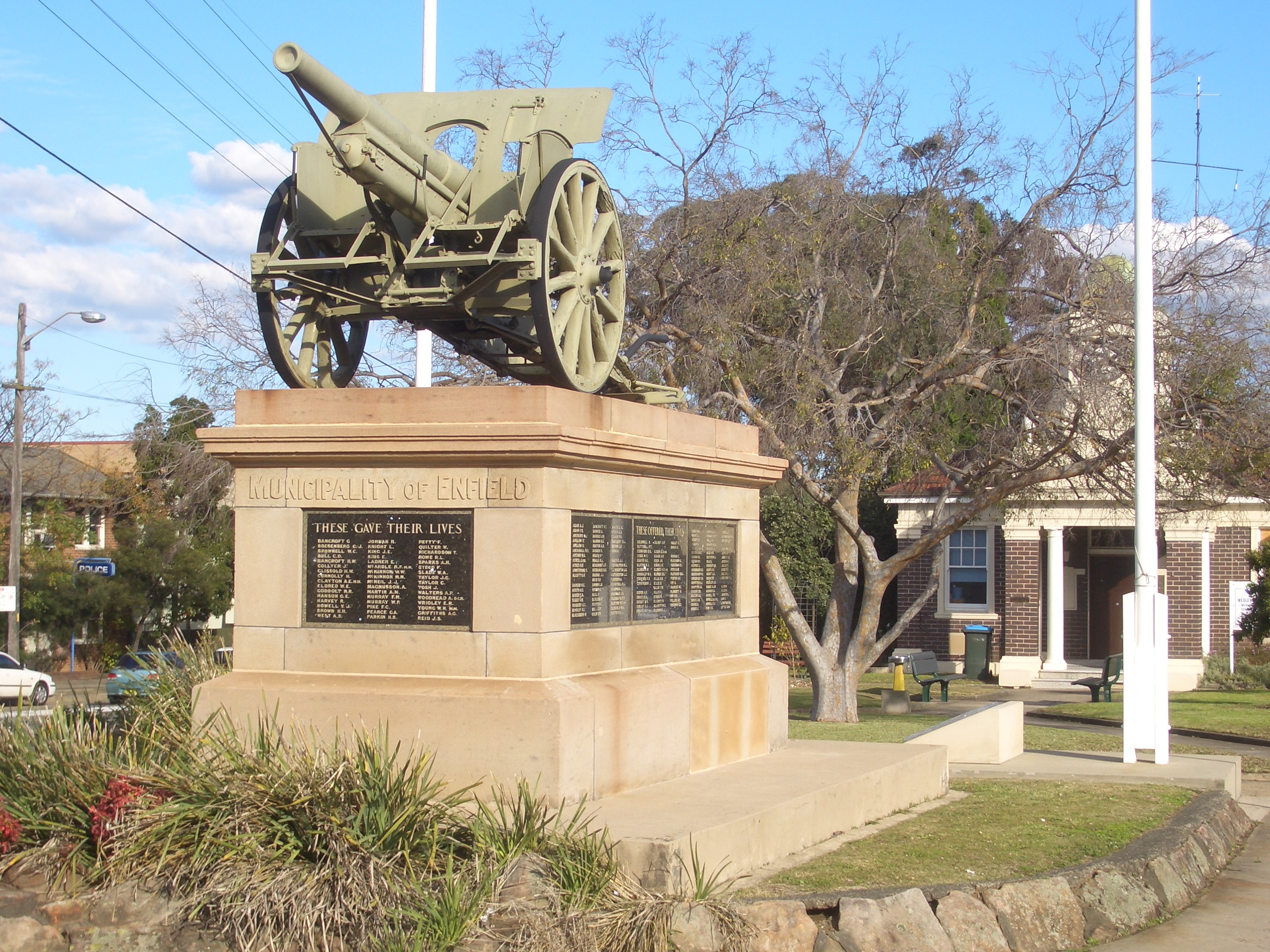 War Memorial, Cnr. Coronation Parade and Liverpool Road, Enfield (Former Enfield Town Hall in background)